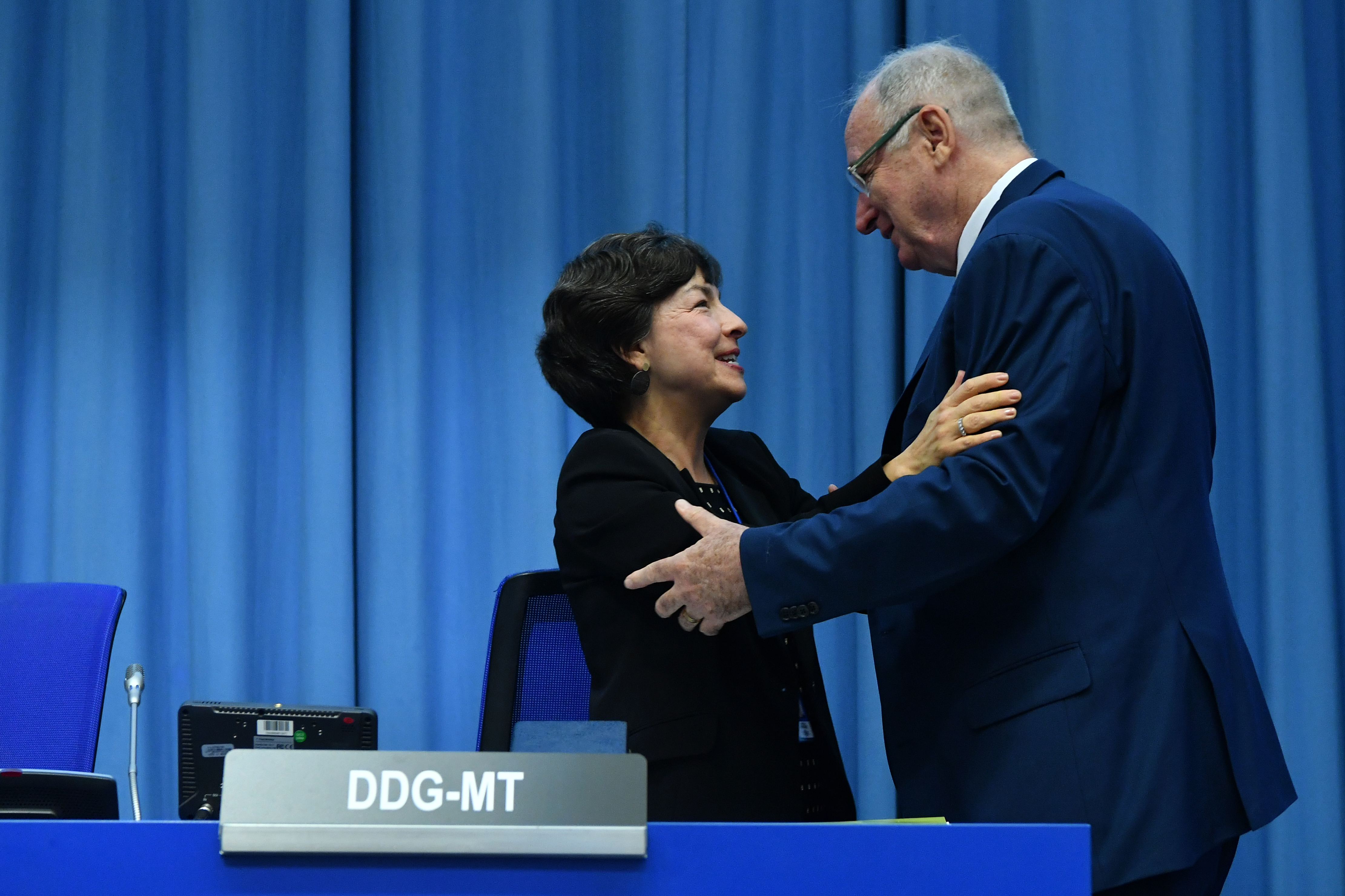 IAEA 63rd General Conference. Plenary, M-Building, IAEA Vienna, Austria. 16 September 2019 Photo Credit: Dean Calma / IAEA